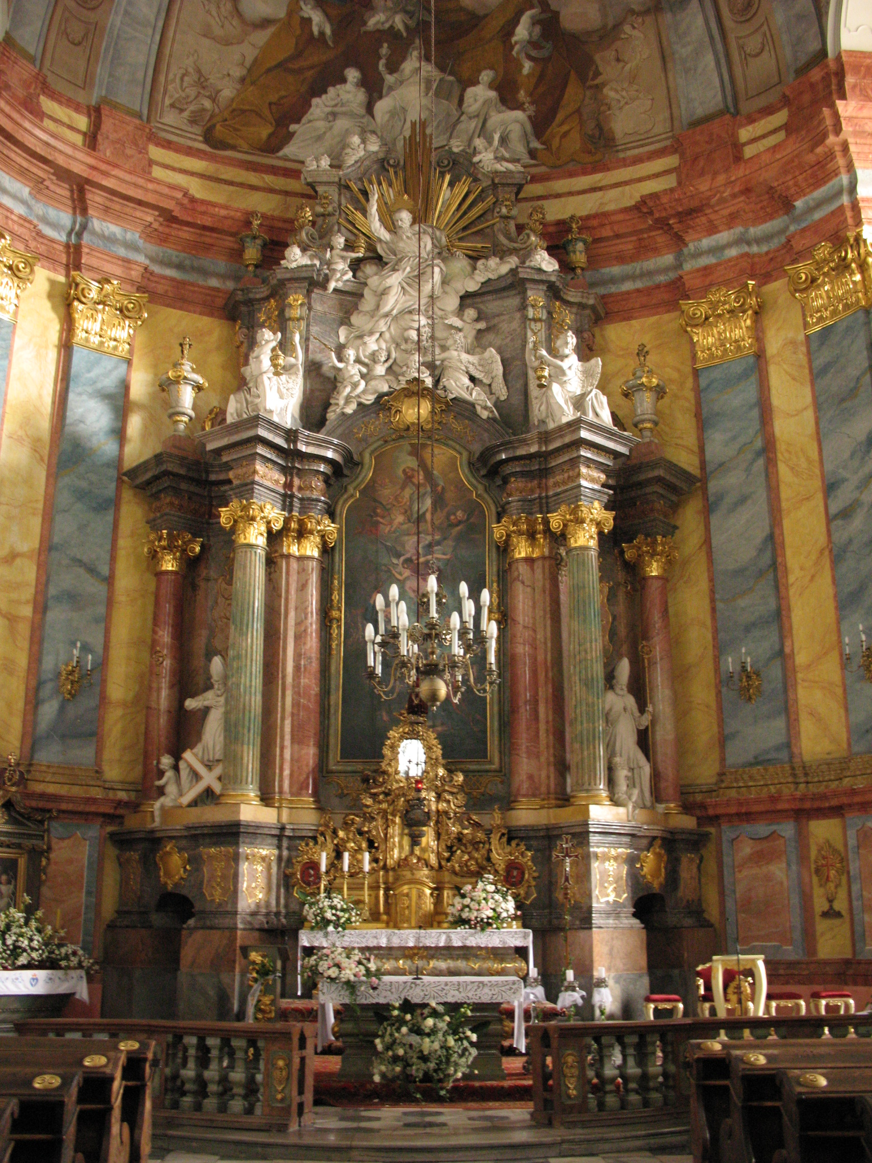 Saints Peter and Paul Church in Nysa, Upper Silesia, Poland